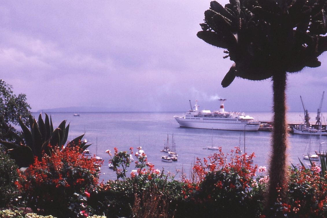 The cruise liner Maksim Gorkiy 1978 in the port of Funchal / Madeira